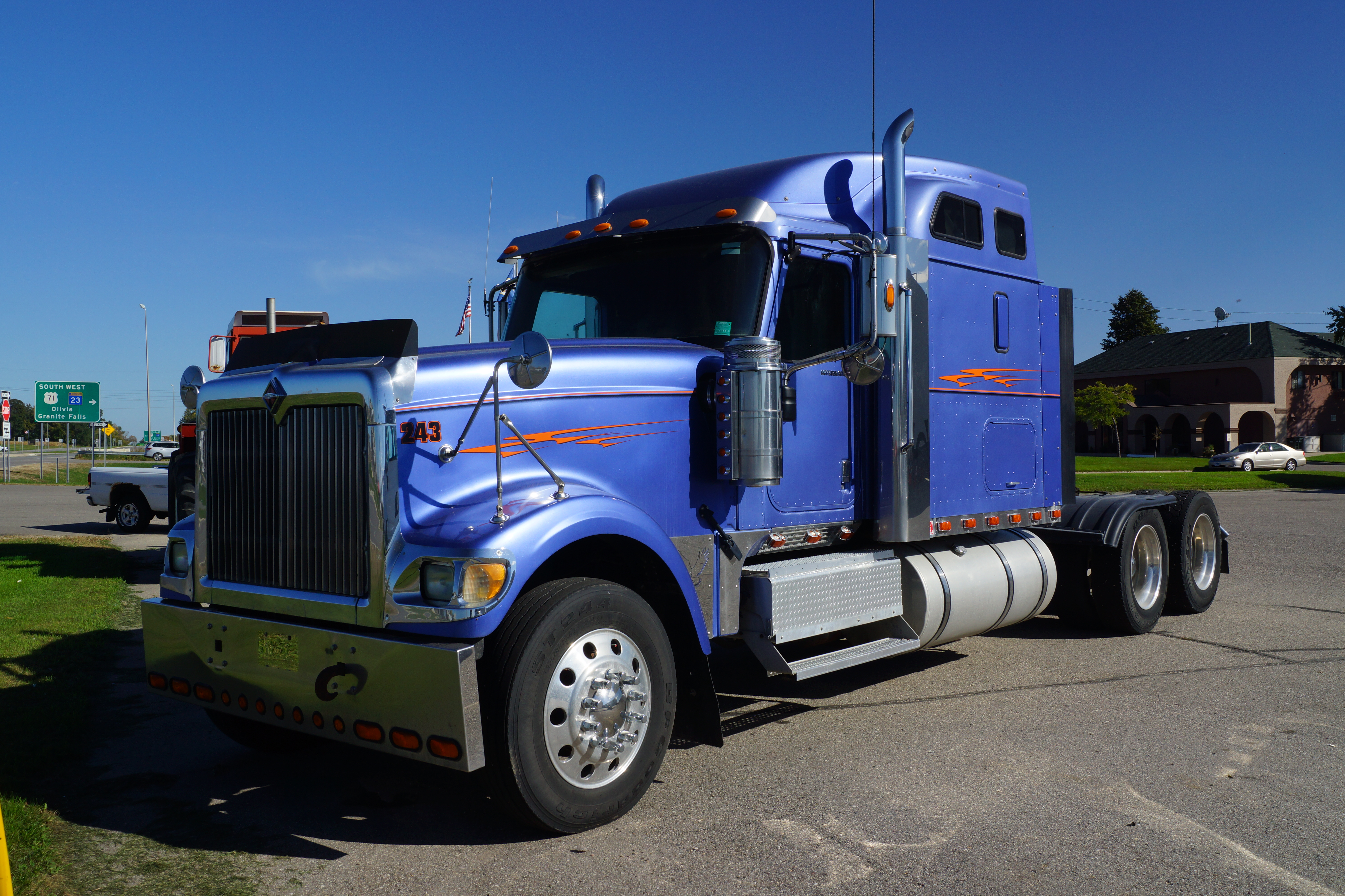 Click here for more car pictures at my Flickr site.